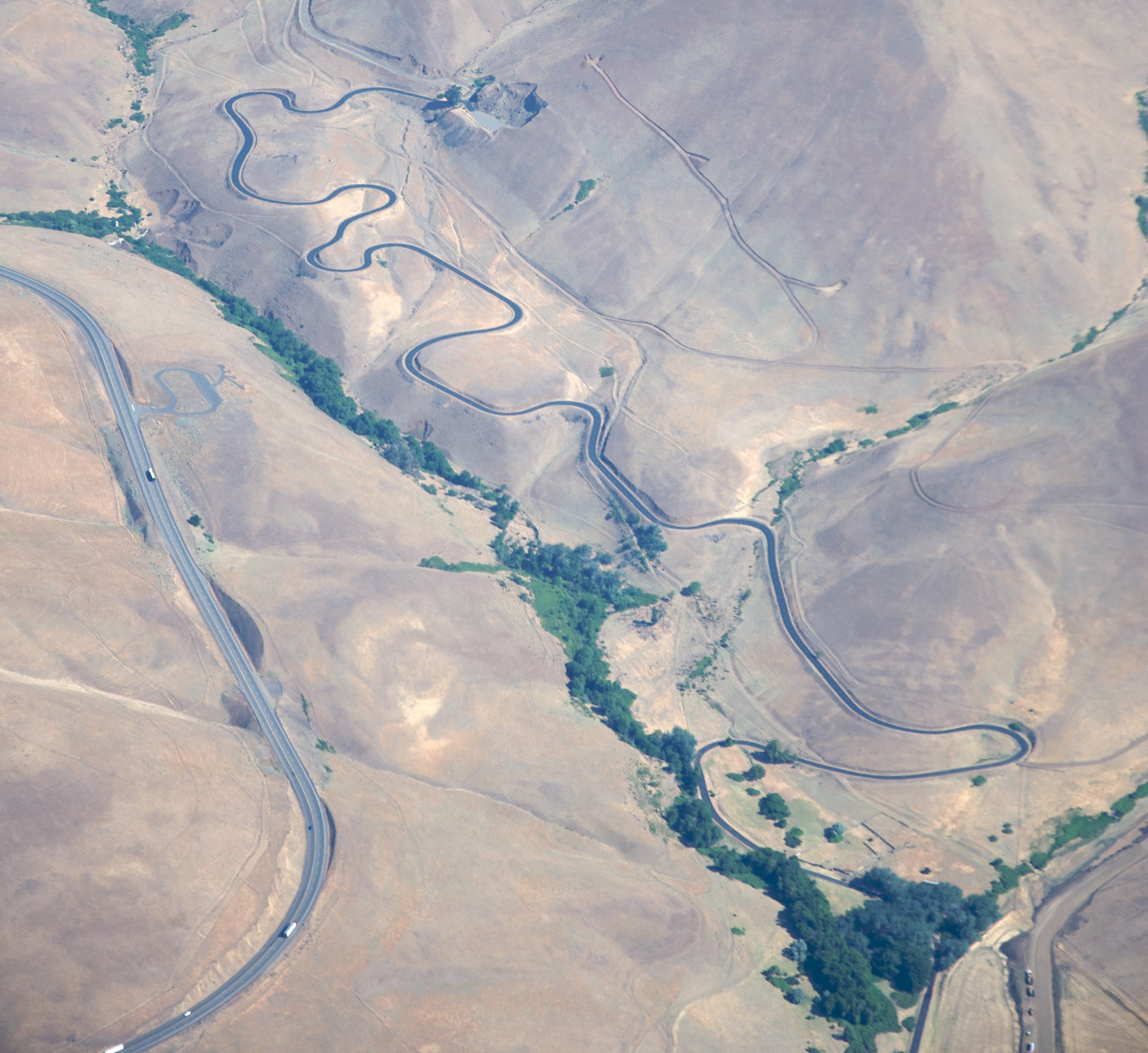 Maryhill Loop Road